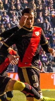 Real Valladolid - Rayo Vallecano, 18th fixture of the 2018-19 La Liga, January 5, 2019.